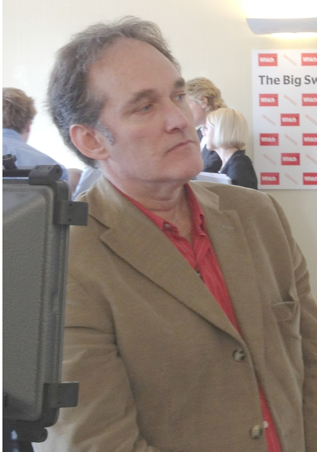 Journalist Jonathan Maitland in May 2012